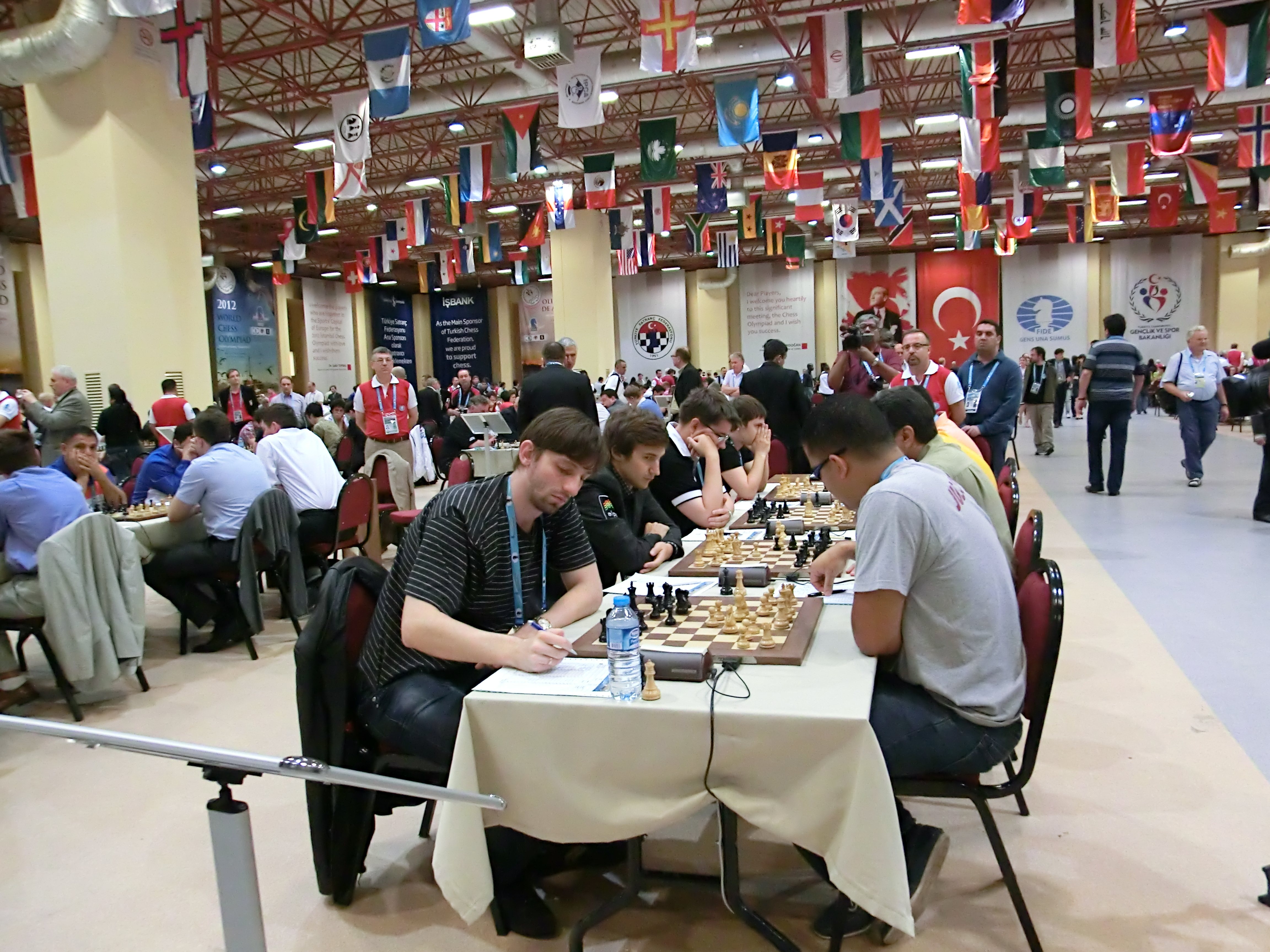 Men's team of Russia during the Chess Olympiad 2012 in Istanbul (Grischuk, Karjakin, Tomashevsky, Jakovenko)